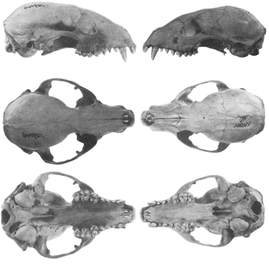 Common raccoon and Cozumel raccoon skulls